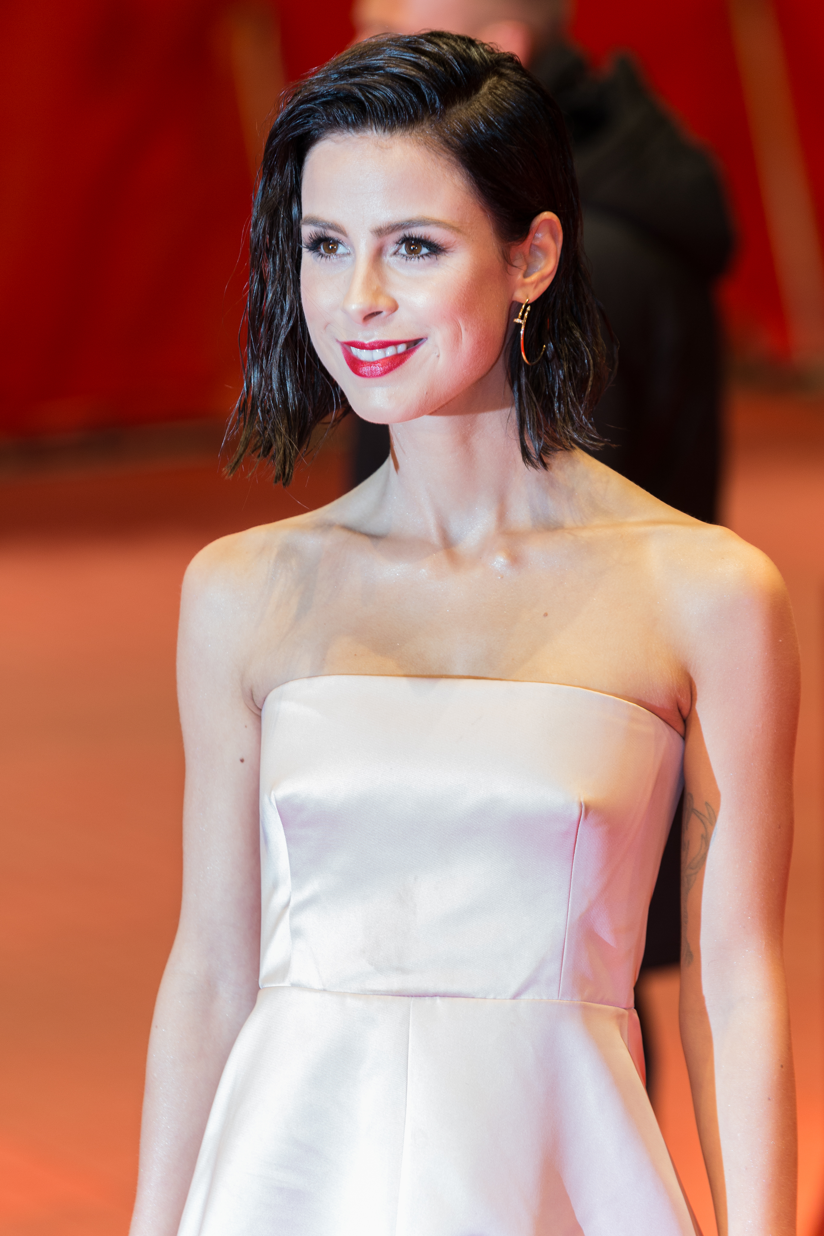 Lena Meyer-Landrut at the opening night of the movie T2 Trainspotting at the Berlinale 2017